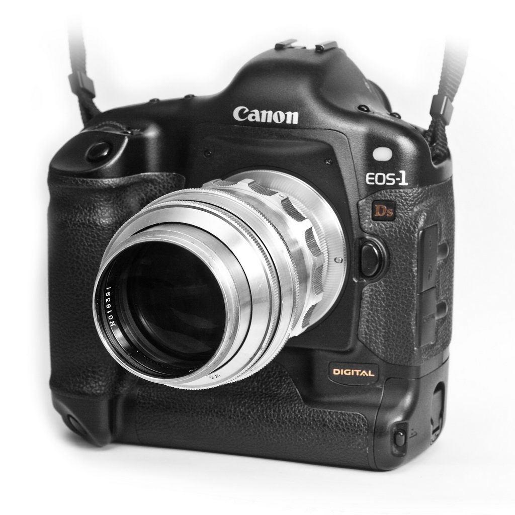 Canon EOS 1Ds DSLR Camera with Tair-11 lens attached.